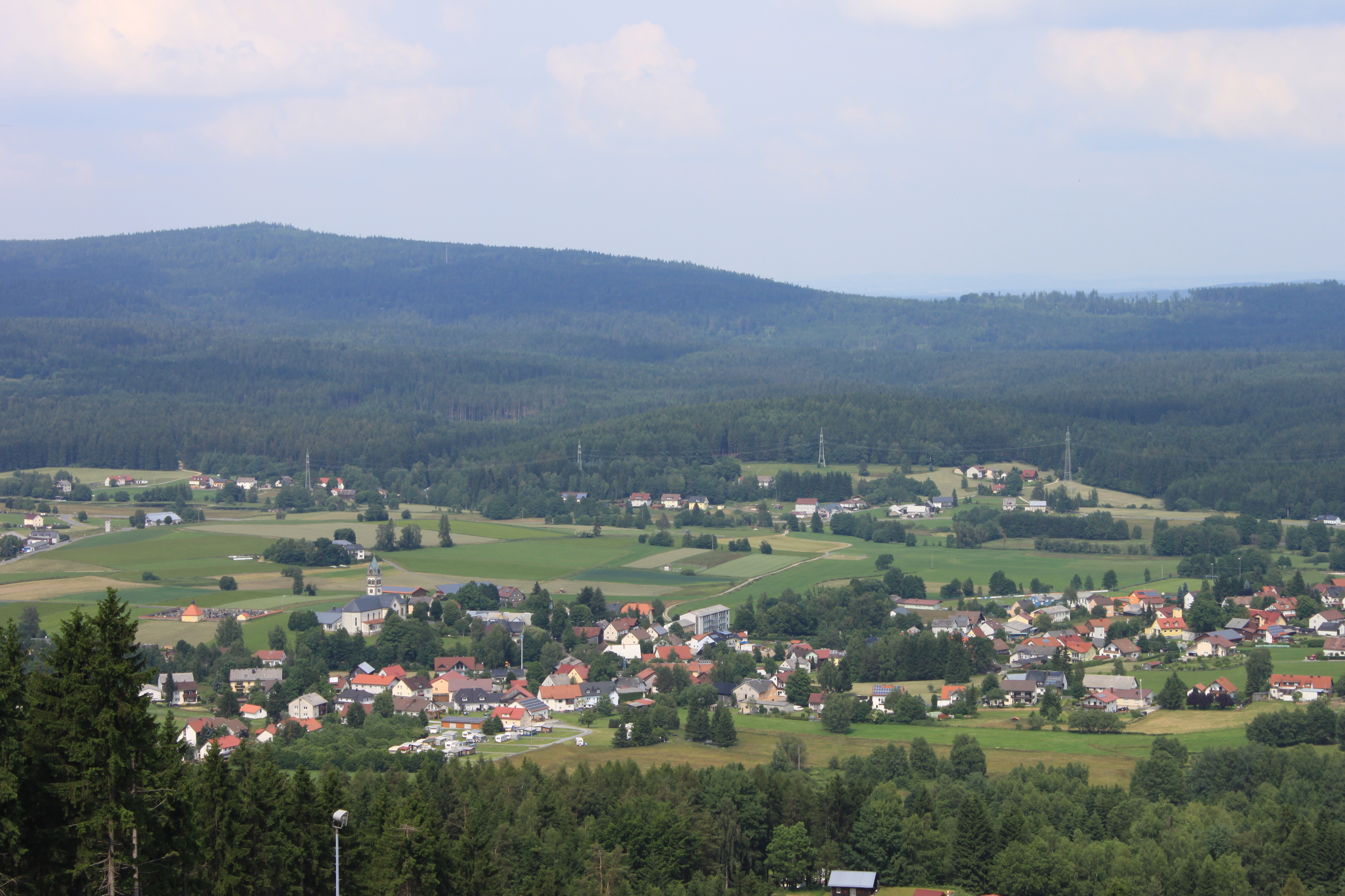 View from Klausenberg direction north-east to Mehlmeisel